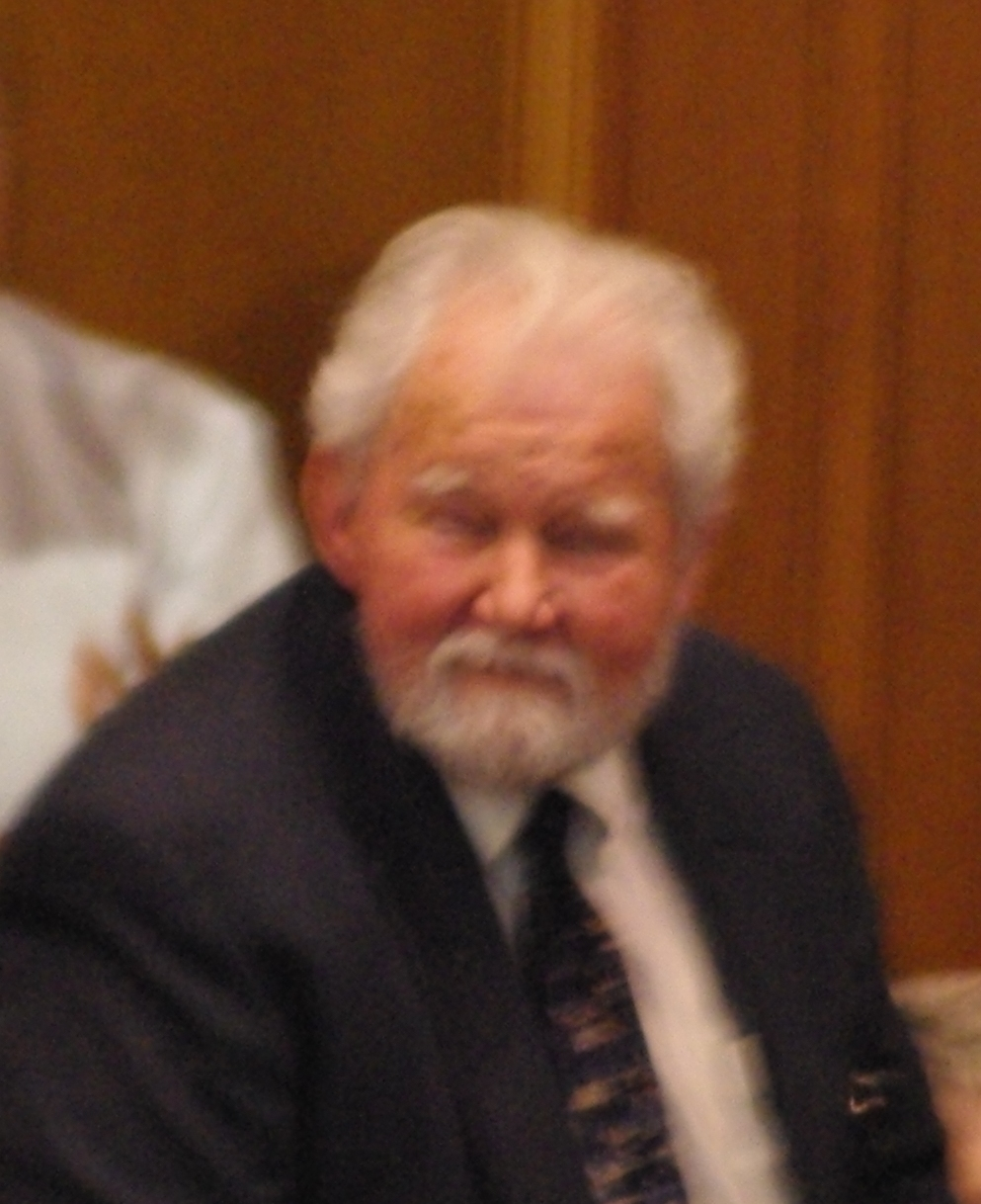 Edward_N._Fadeley at 2009 opening of Oregon legislature